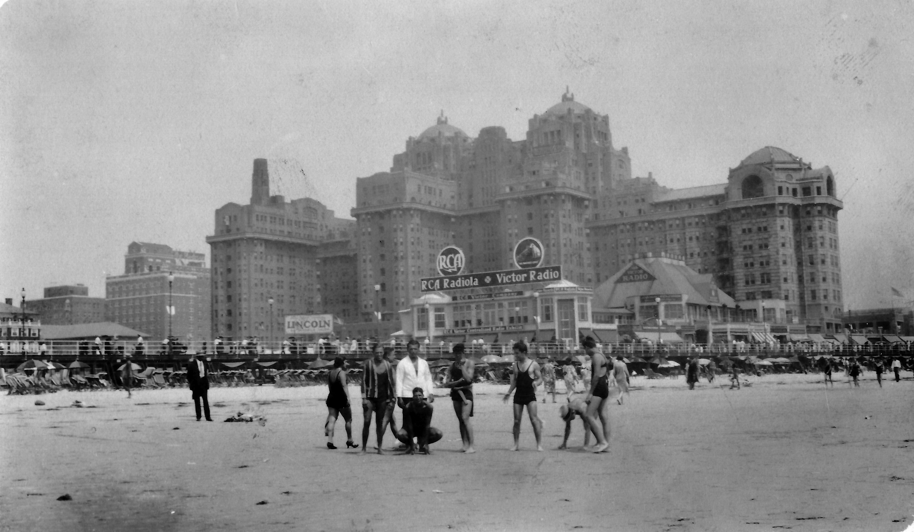 Amateur photo by unknown photographer of the Traymore Hotel in Altantic City, N.J. circa 1930. I arrive at that date due to the RCA Victor store pictured. RCA acquired Victor in 1929 and became known as RCA Victor. Photo was obtained on e-Bay.